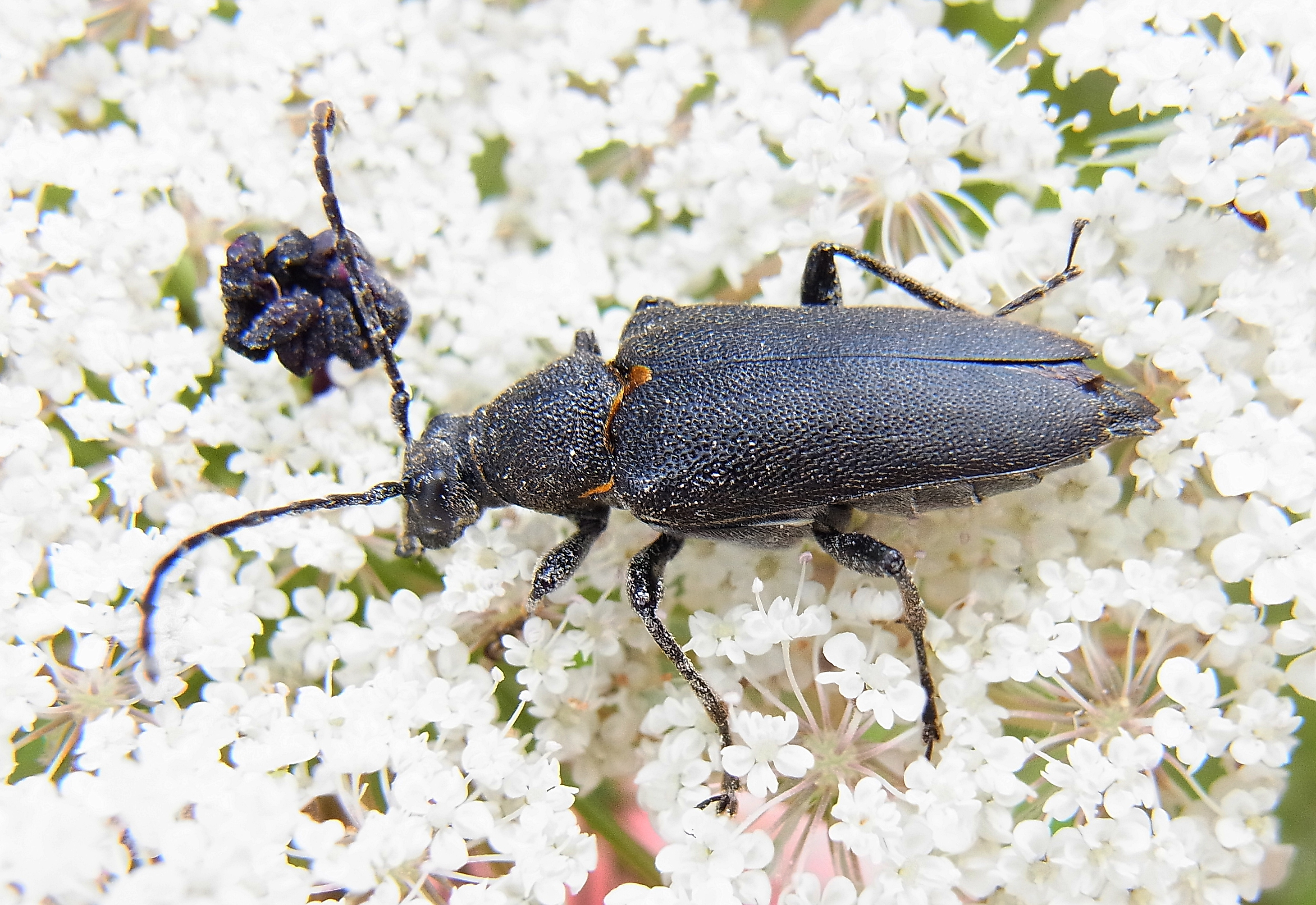 Stictoleptura scutellata, female from Northern Spain 1500 m over St. Marina de Valdeón, León at 2013-07-12